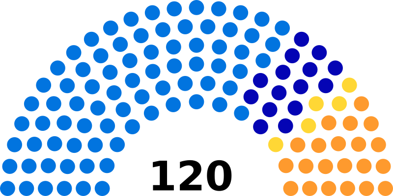 Seats diagramme of Swiss National Council (1857)